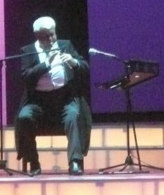 Djivan Gasparyan playing (concert in Oktyabrsky concert hall, St. Petersburg, Russia, October 20, 2008)